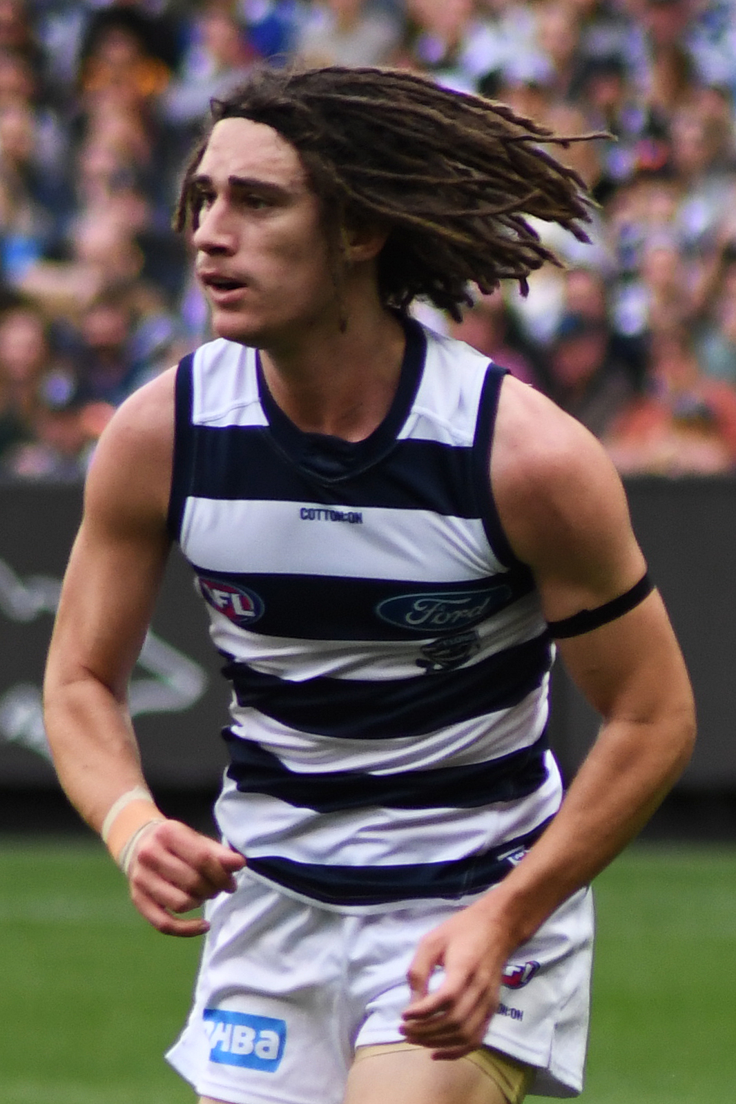 Gryan Miers of Geelong during the 2019 AFL round 5 match between Hawthorn and Geelong at the Melbourne Cricket Ground on Monday, 22 April 2019 in Melbourne, Victoria.